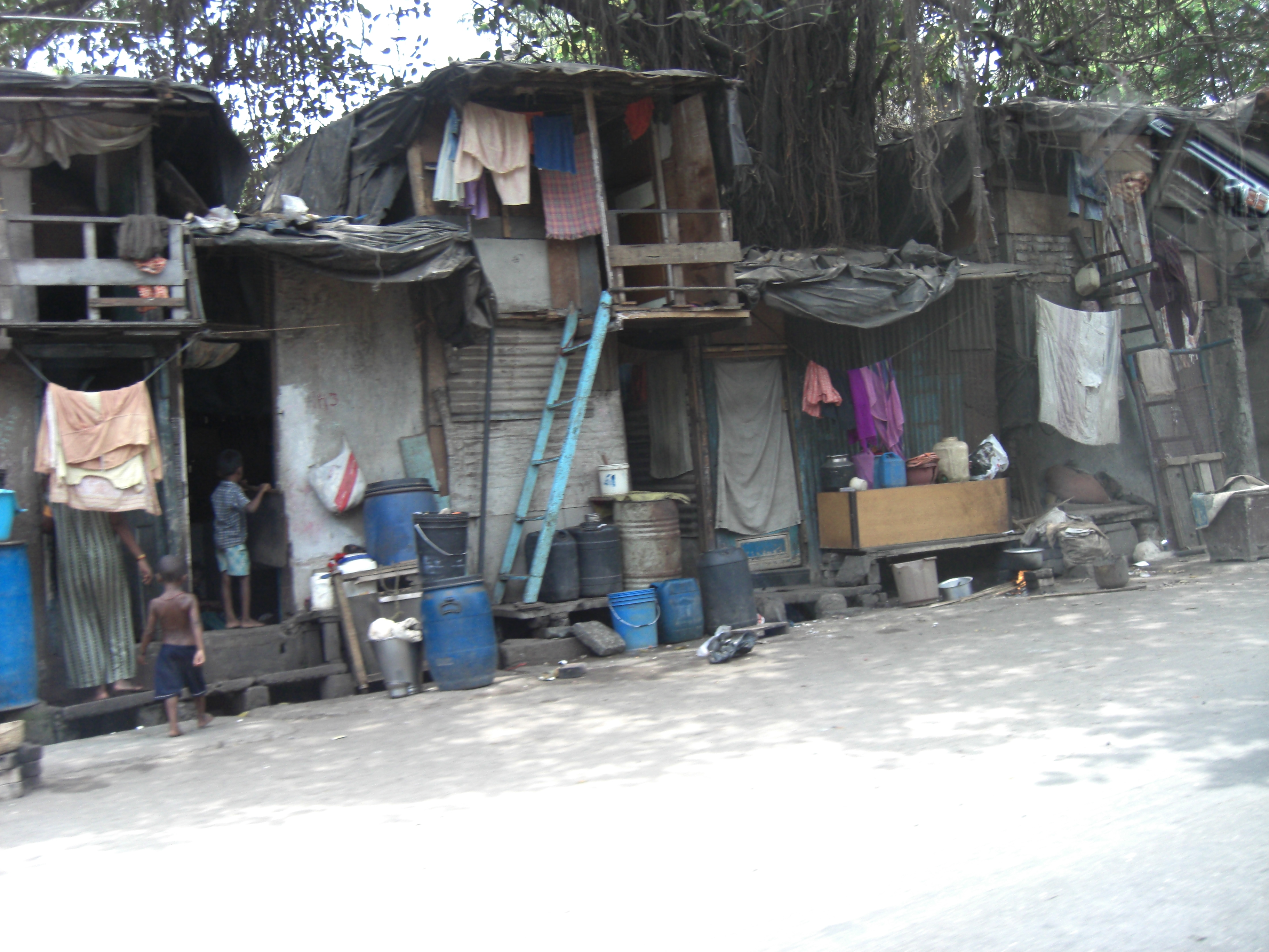 This is like a sorry state of a lot of places in Mumbai but the fact is that this is a City of Dreams in the country. People flock from all over and pour into houses like these along the roads. The story I hear is there is a political nexus between these shanties and politicians as they become ready voteback as long as water , electricity and ration card is provided to these shanties. You will be amazed to see color TV with Cable in these houses .